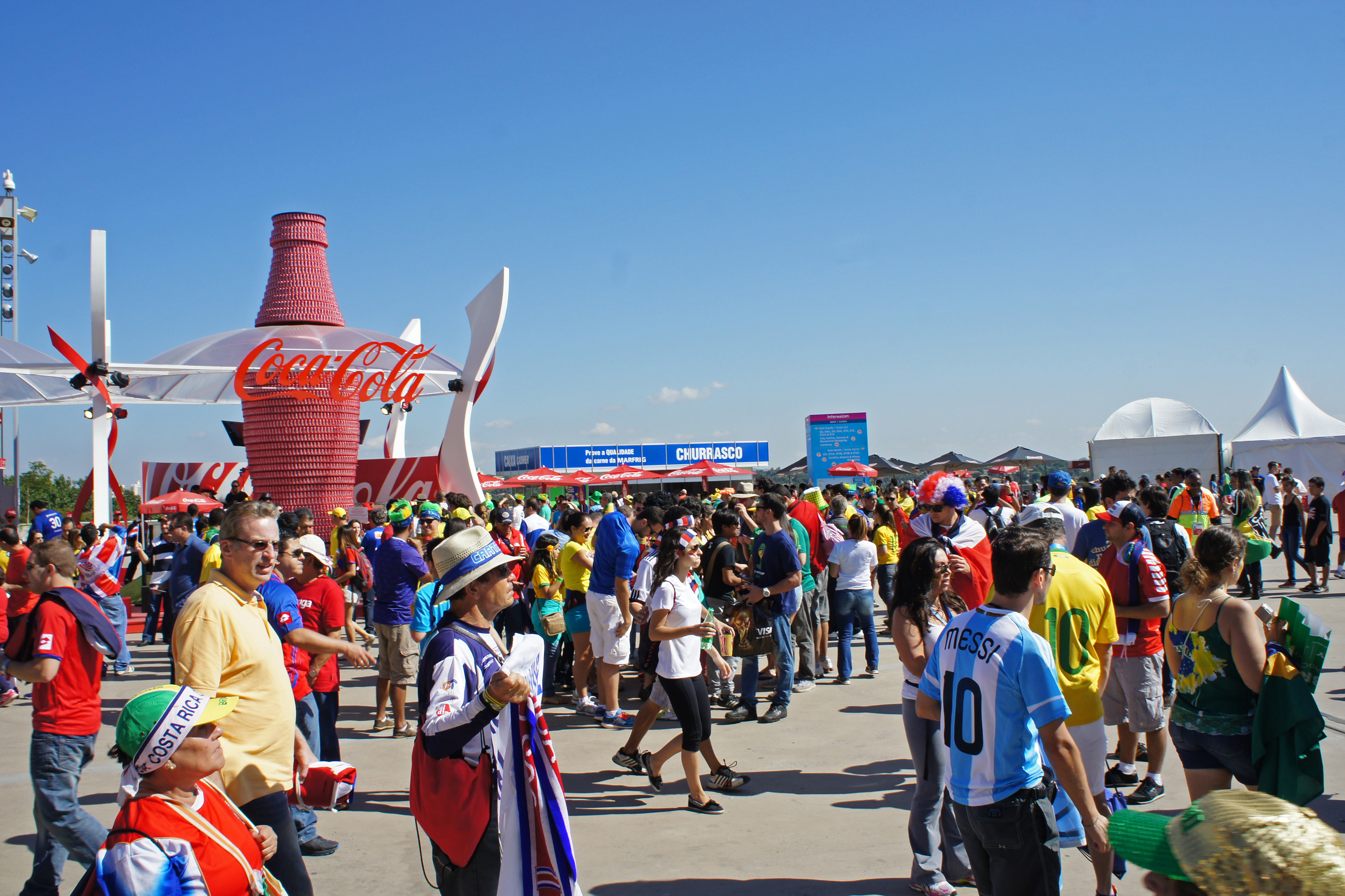 Fans at Estádio Mineirão in Belo Horizonte during the Costa Rica-England match at the 2014 FIFA World Cup, Brazil.